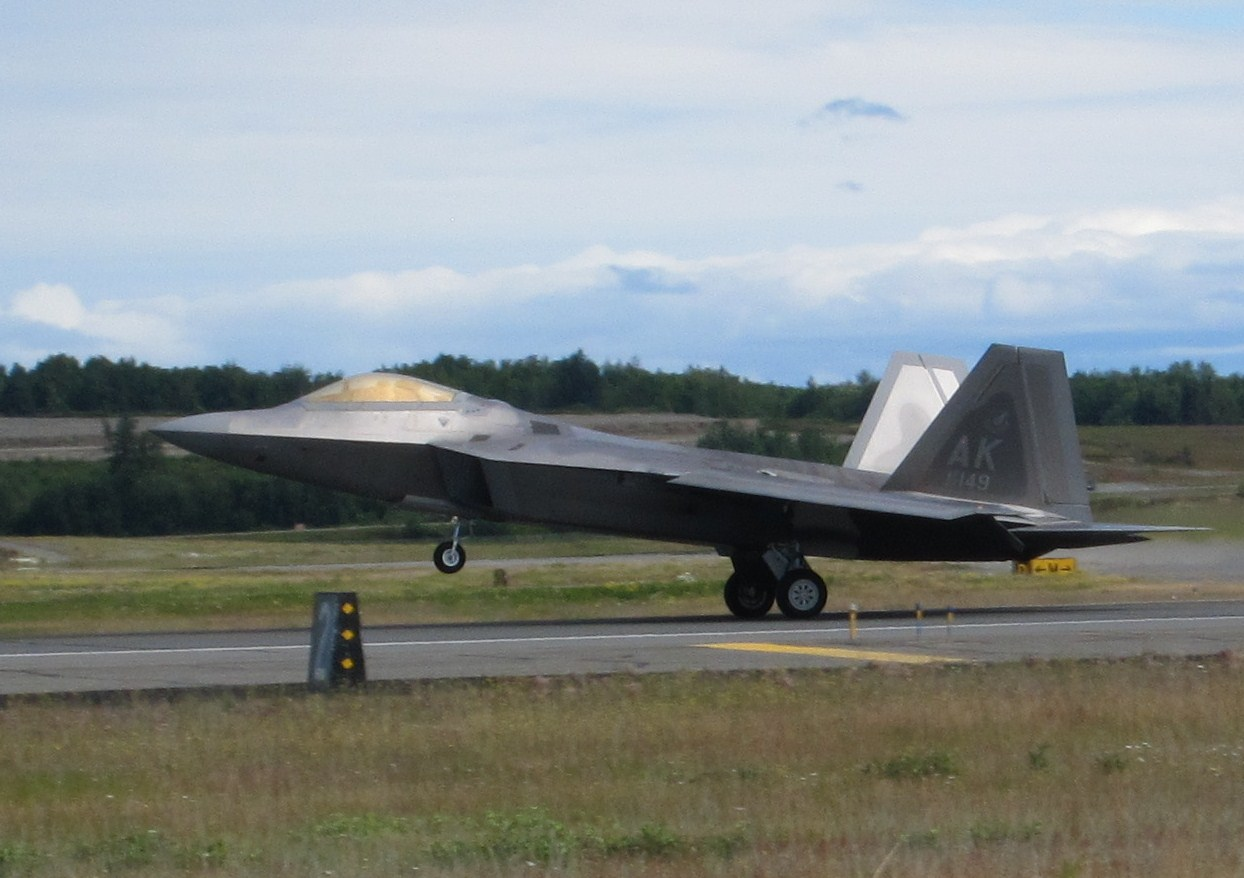 An F22 Raptor landing at Elmendorf AFB, in Anchorage Alaska, demonstrating areodynamic braking.